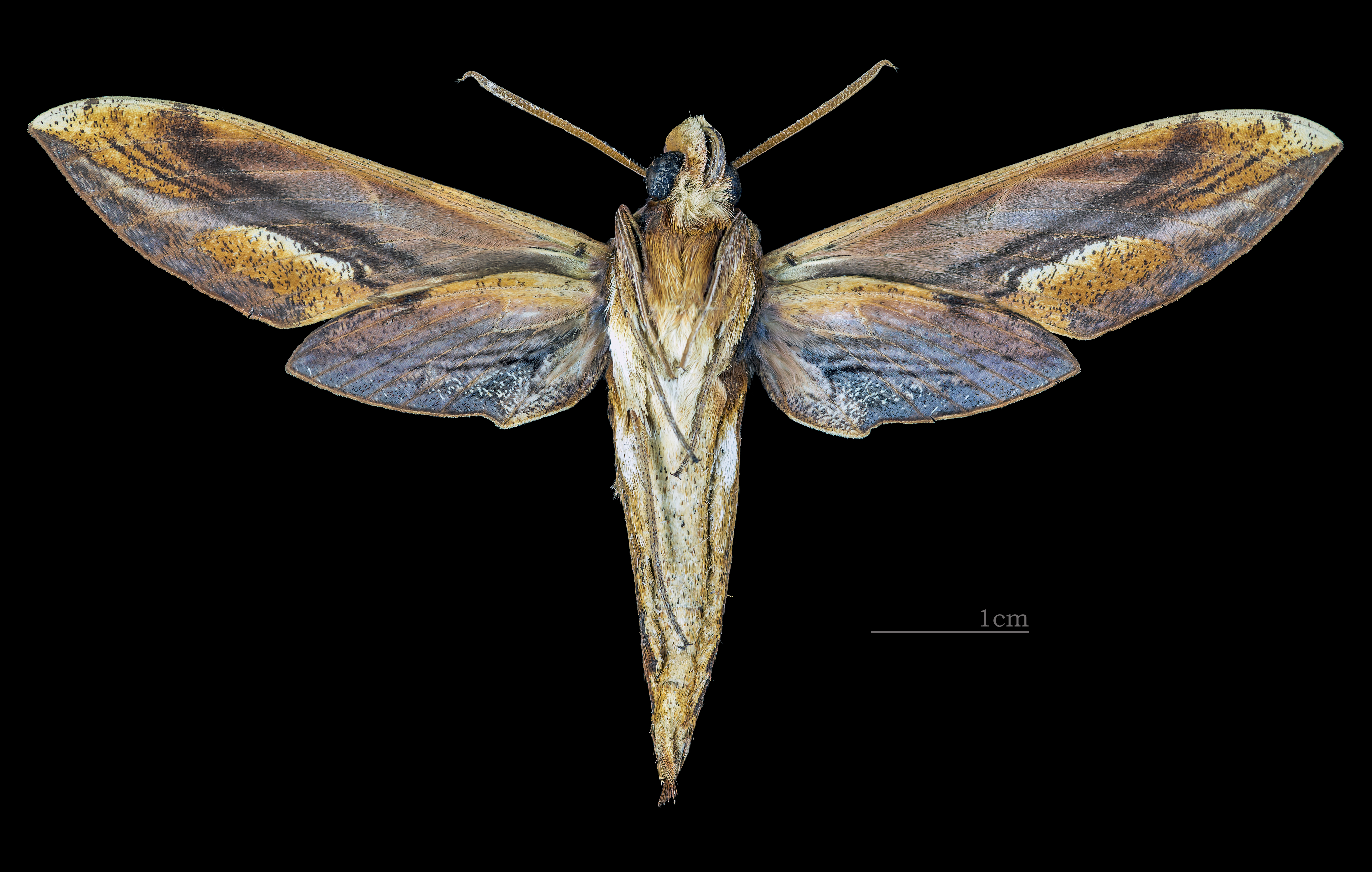 Xylophanes pyrrhus - △ Ventral side